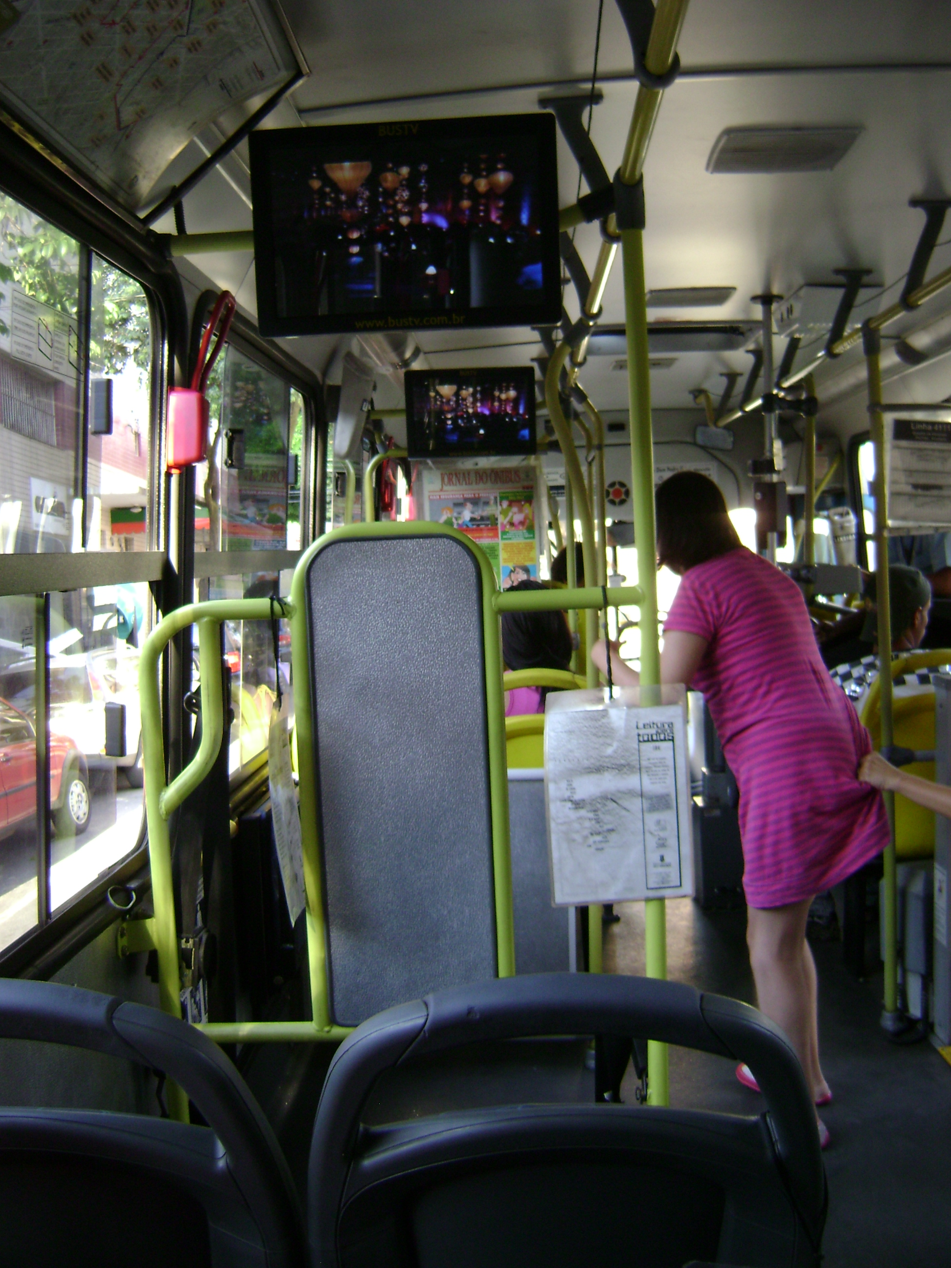 Televisions inside a public bus in Belo Horizonte, Minas Gerais, Brazil.